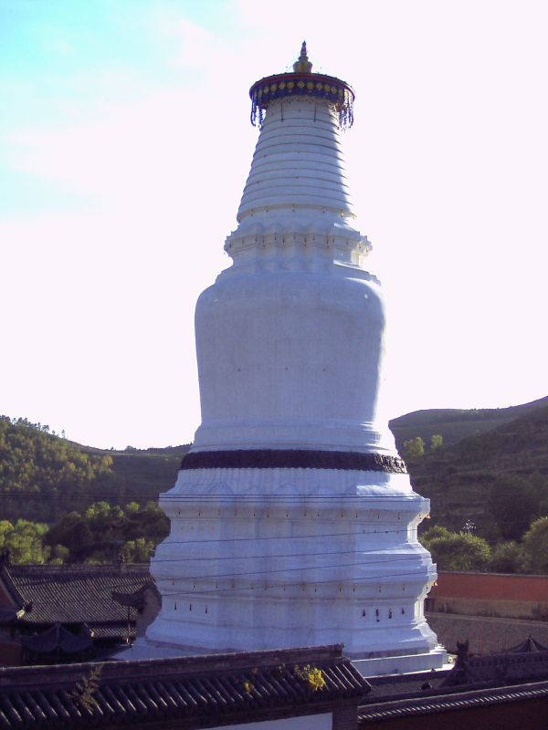 Dagba Wutaishan